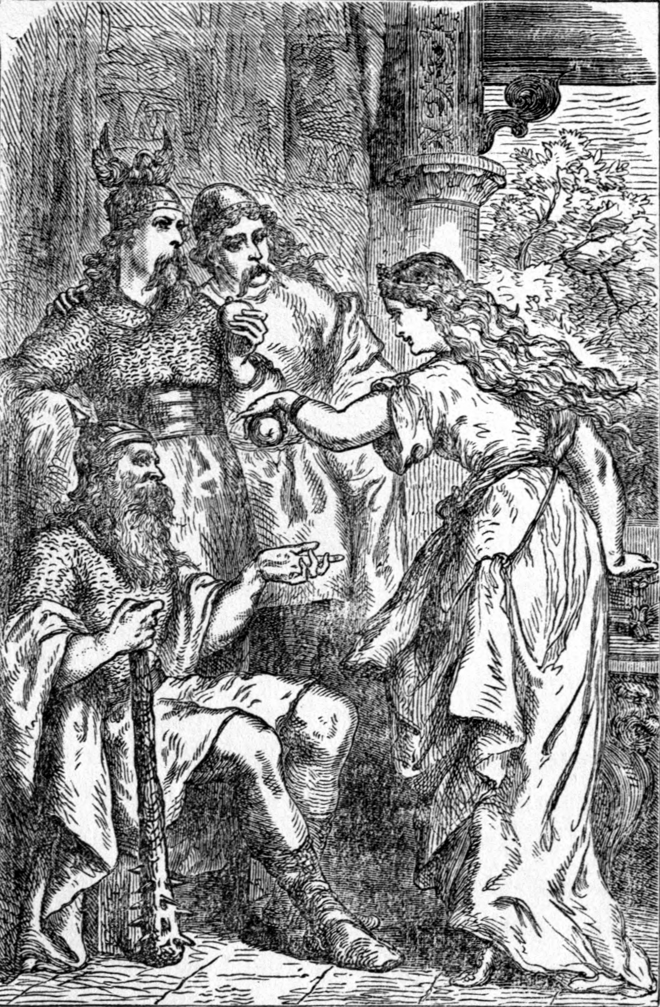 Iduna giving the magic apples (the title given to this illustration in the book)